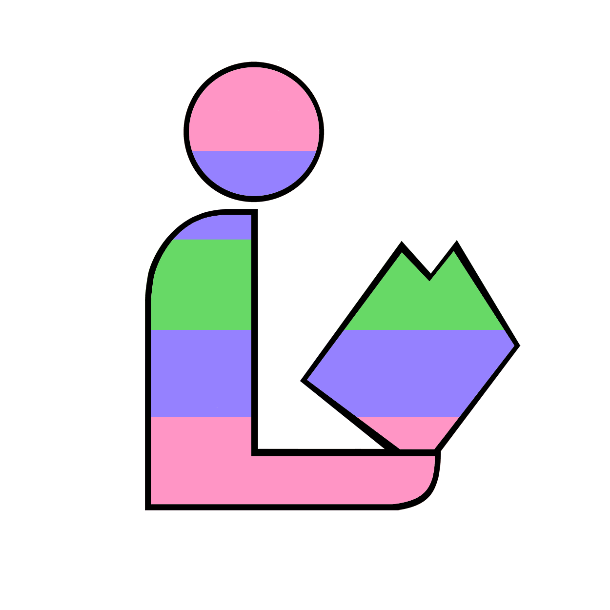 This design combines the trigender pride flag with the public library logo.